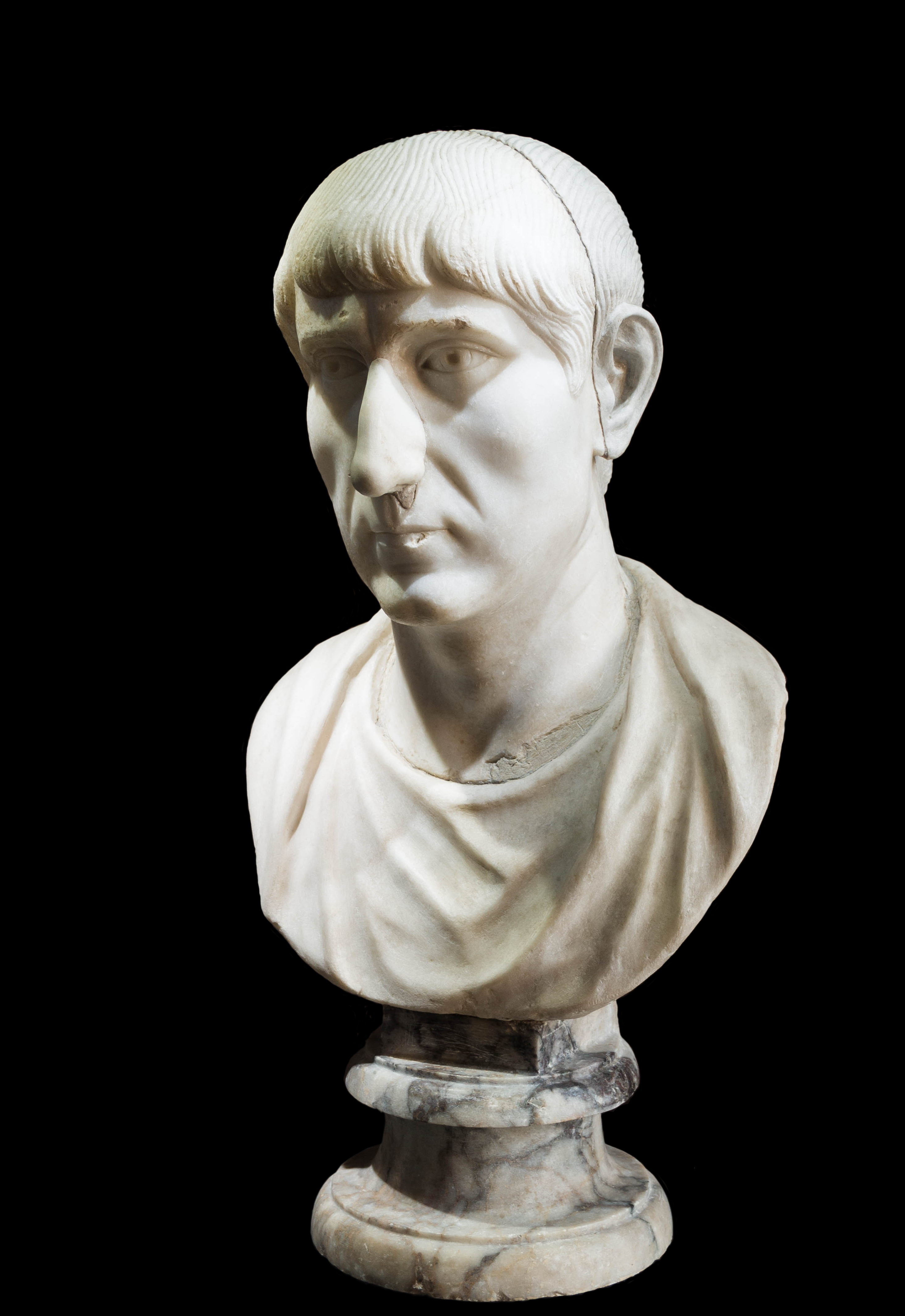 Presumed bust of emperor Constantius II (317 - 361), son and successor of Constantine the Great. Temporary exhibition in Colosseum (aug.2013), Rome, Italy.